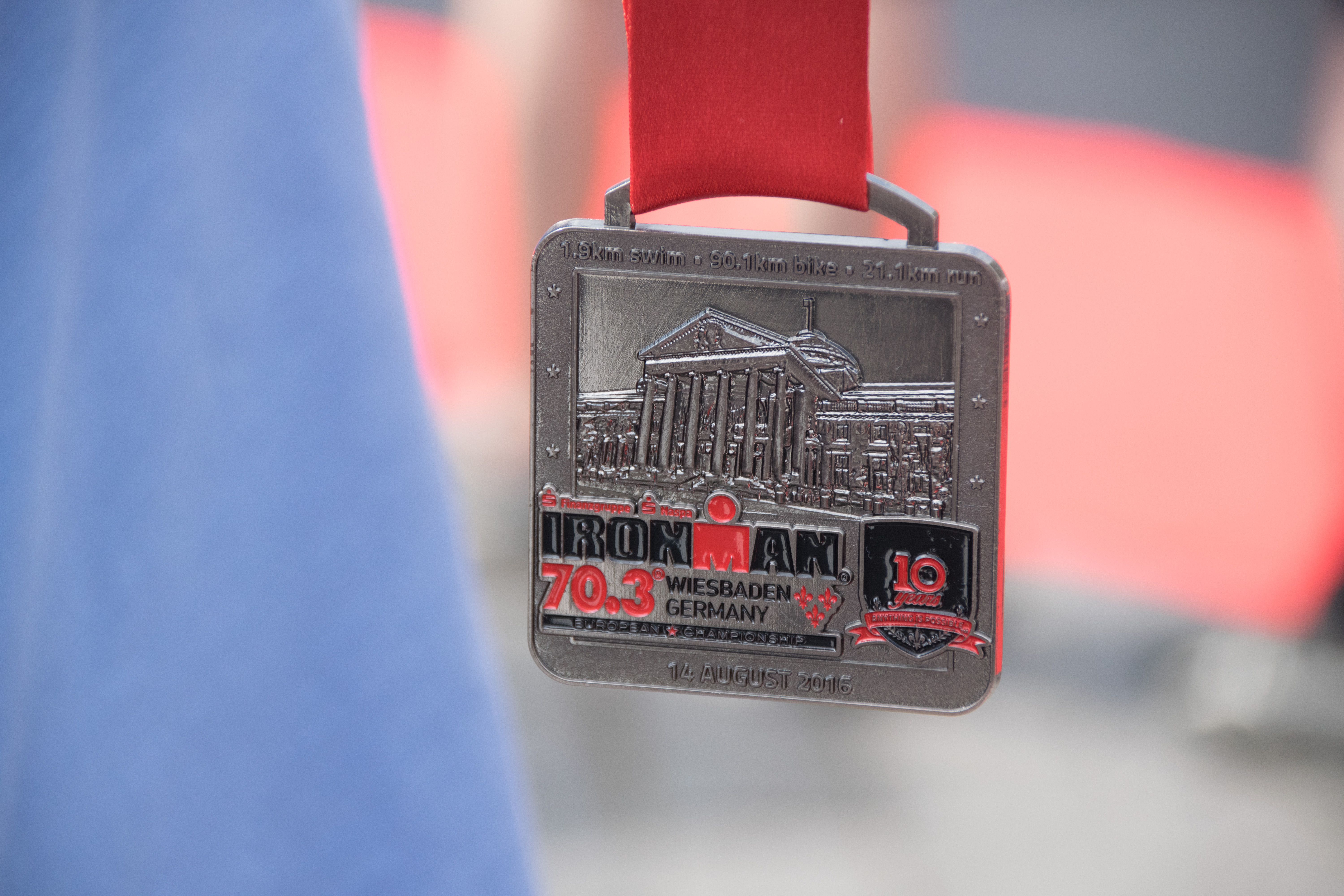 Ironman 70.3 Germany am 14. August 2016 in Wiesbaden